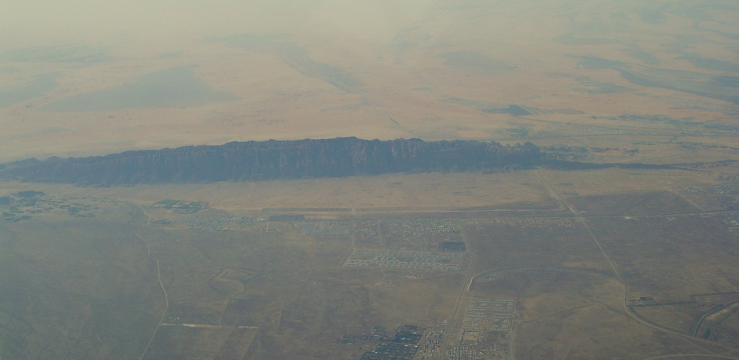 Aerial picture of Jebel Hafeet from the east.